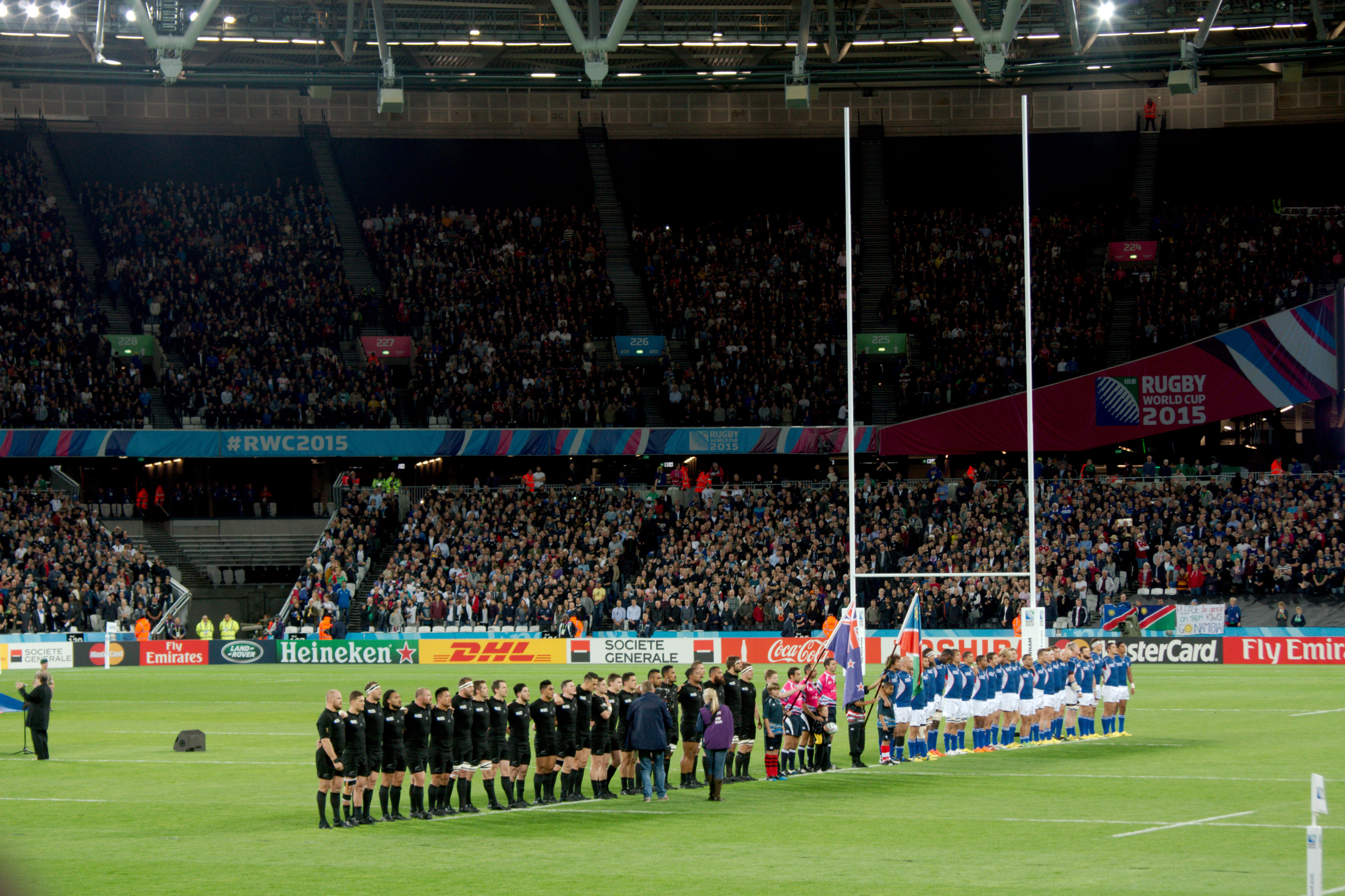 Game between New Zealand and Namibia in the 2015 Rugby World Cup at Olympic Park.